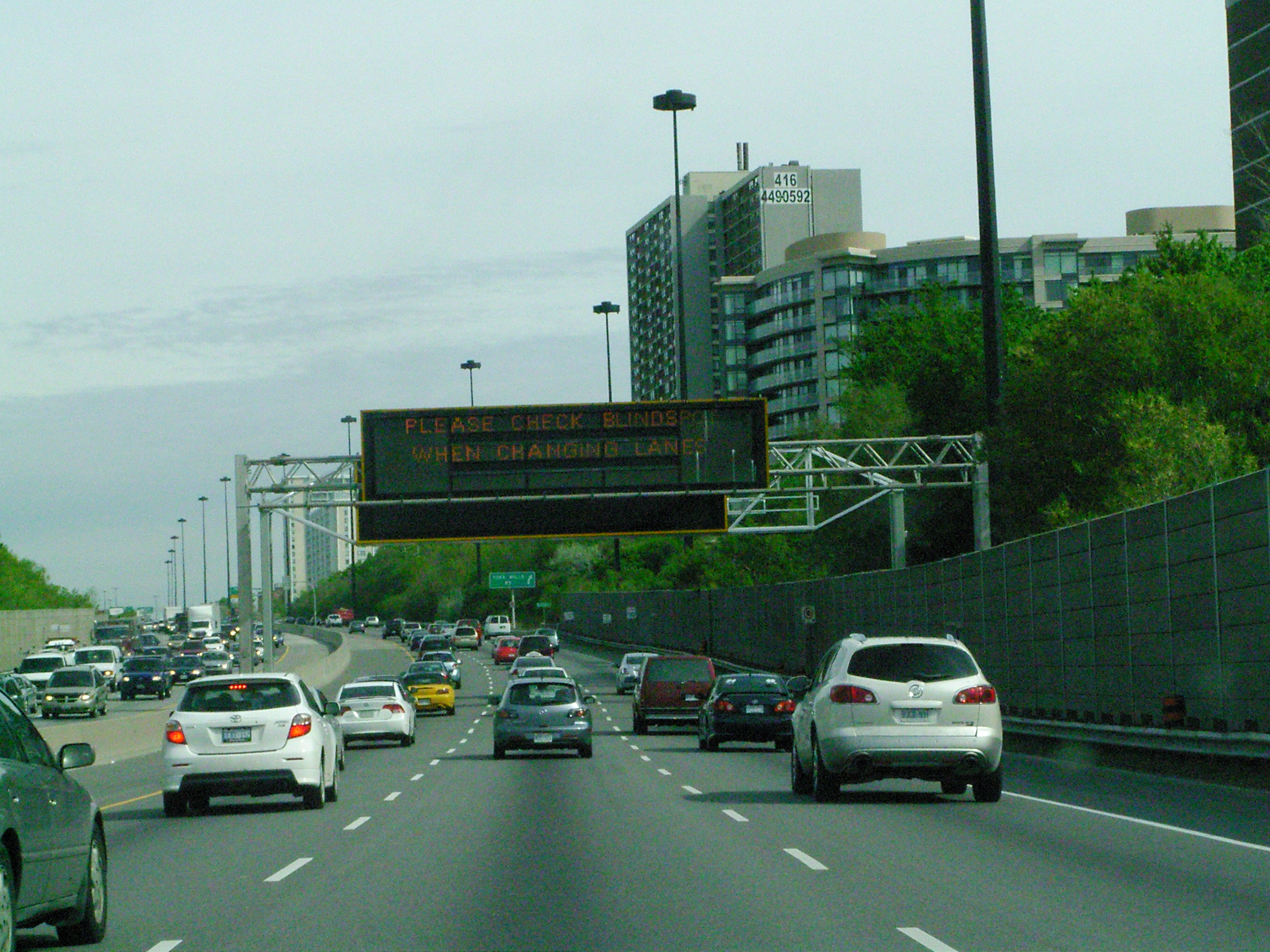 Overhead changeable message board for motorists on Don Valley Parkway in Toronto, Canada.